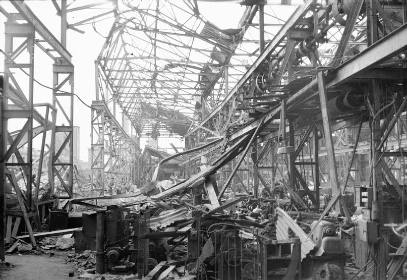 Royal Air Force Bomber Command, 1942-1945. A wrecked machine shop where telescopes and torpedoes were made, at the Krupp-Grusonwerk AG in Magdeburg, Germany. Magdeburg was subjected to a heavy area attack by aircraft of Bomber Command on the night of 16/17 January 1945, when 44 per cent of the city's built-up area was reported destroyed.